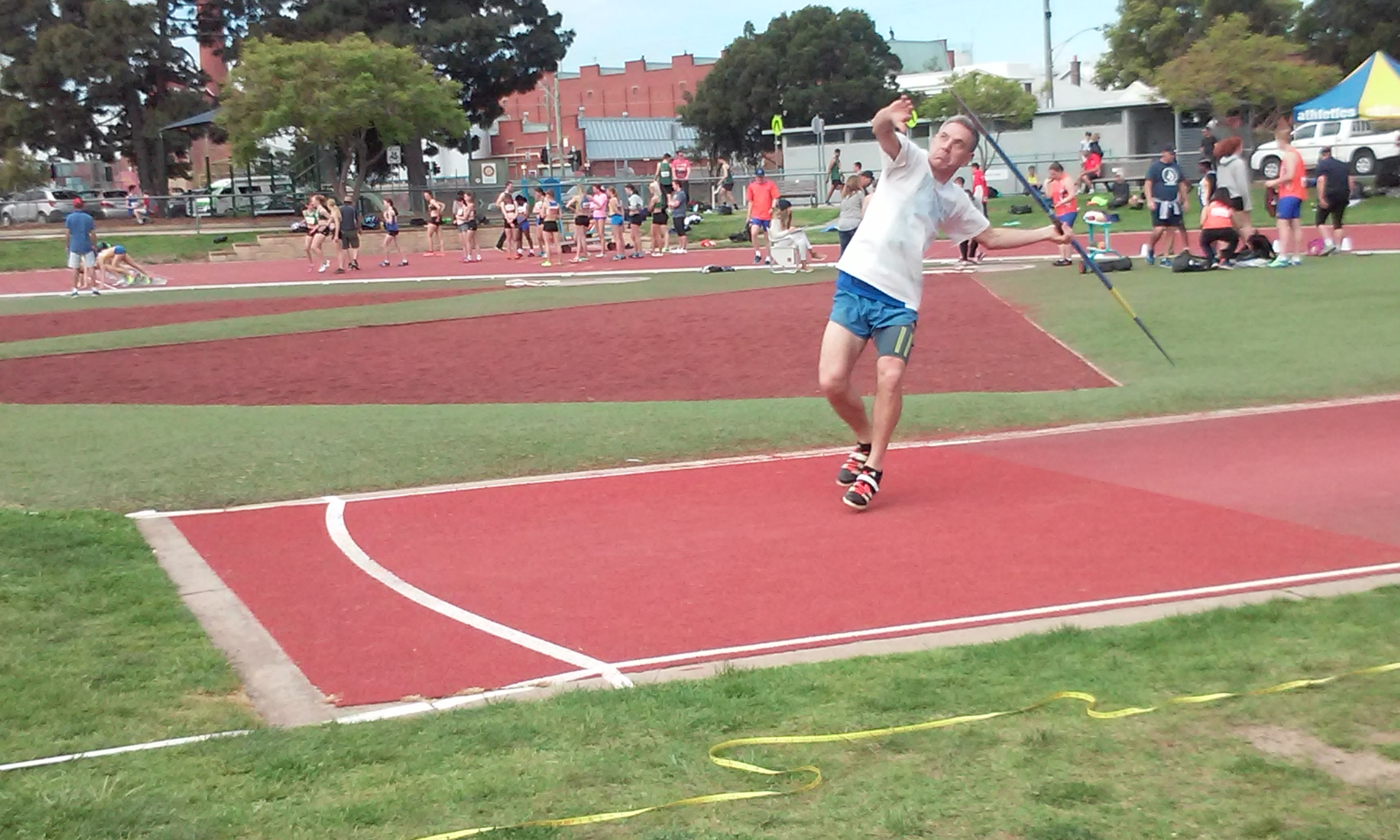 Alan Hawkins (athlete) 1